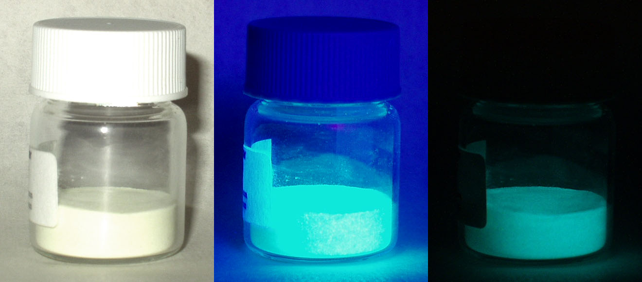 An example of phosphorescence. Europium doped strontium silicate-aluminate oxide powder (cyan pigmented). Shown under visible light, long-wave UV light, and in total darkness.